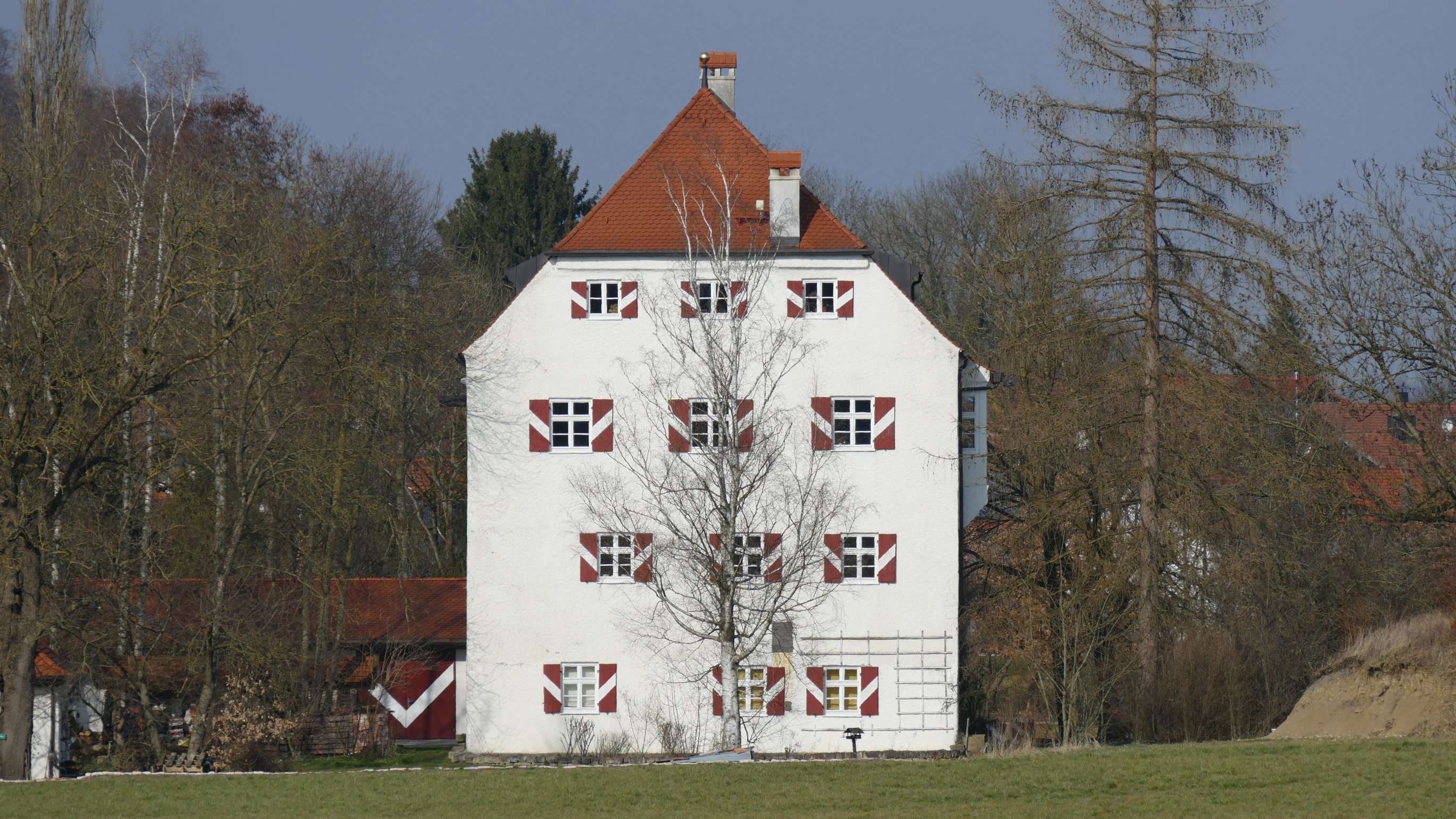 The former moated castle Eichbichl in Jakobneuharting (Landkreis Ebersberg), Upper Bavaria. View to southwest side from Tegernau